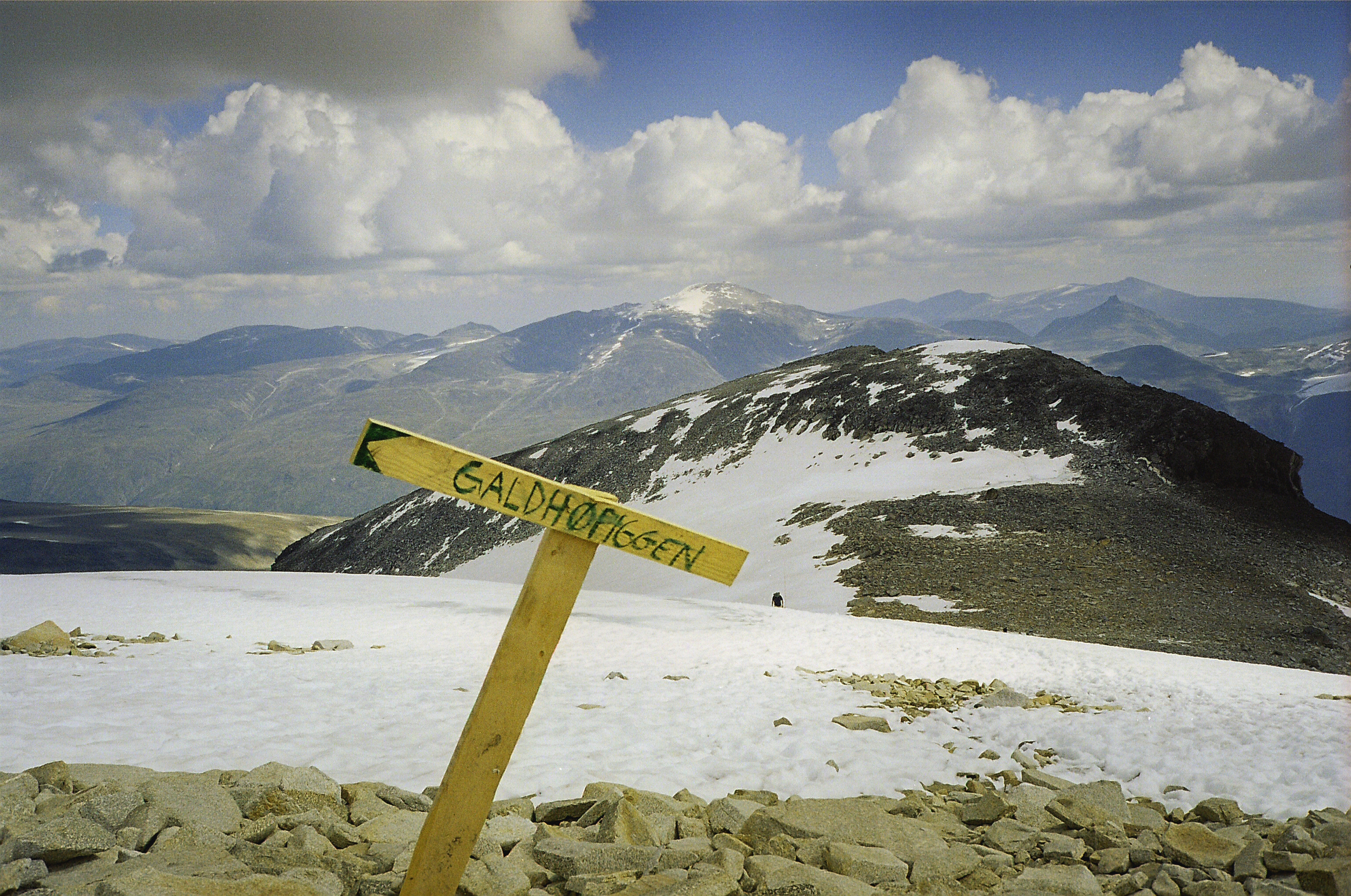 Galdhøpiggen en route to the summit.